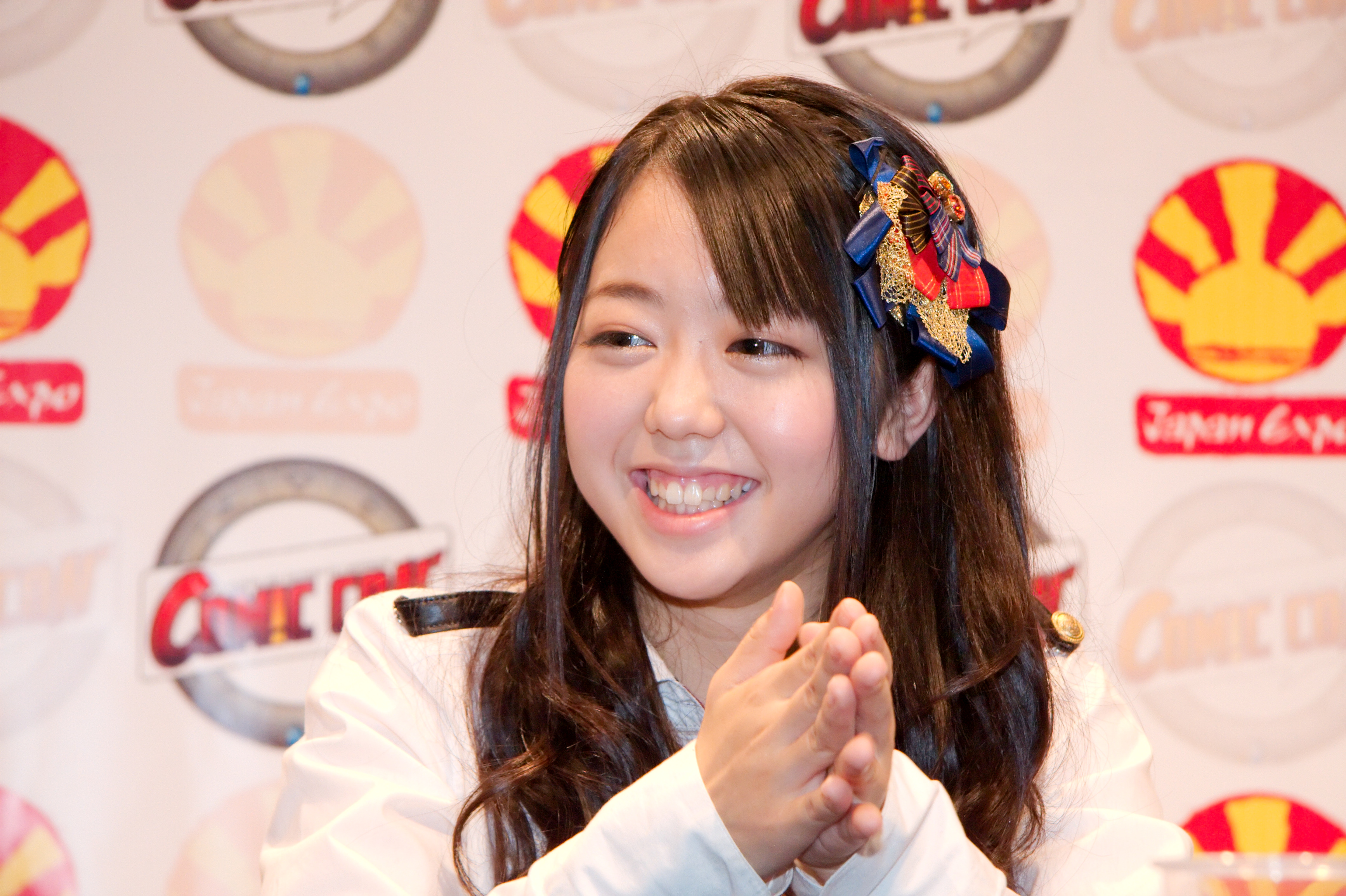 Minami Minegishi of AKB48 during lecture at Japan Expo 2009 (Paris, France).